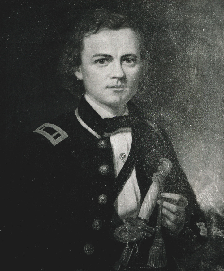 Thomas Henry Malone, I (1834-1906).